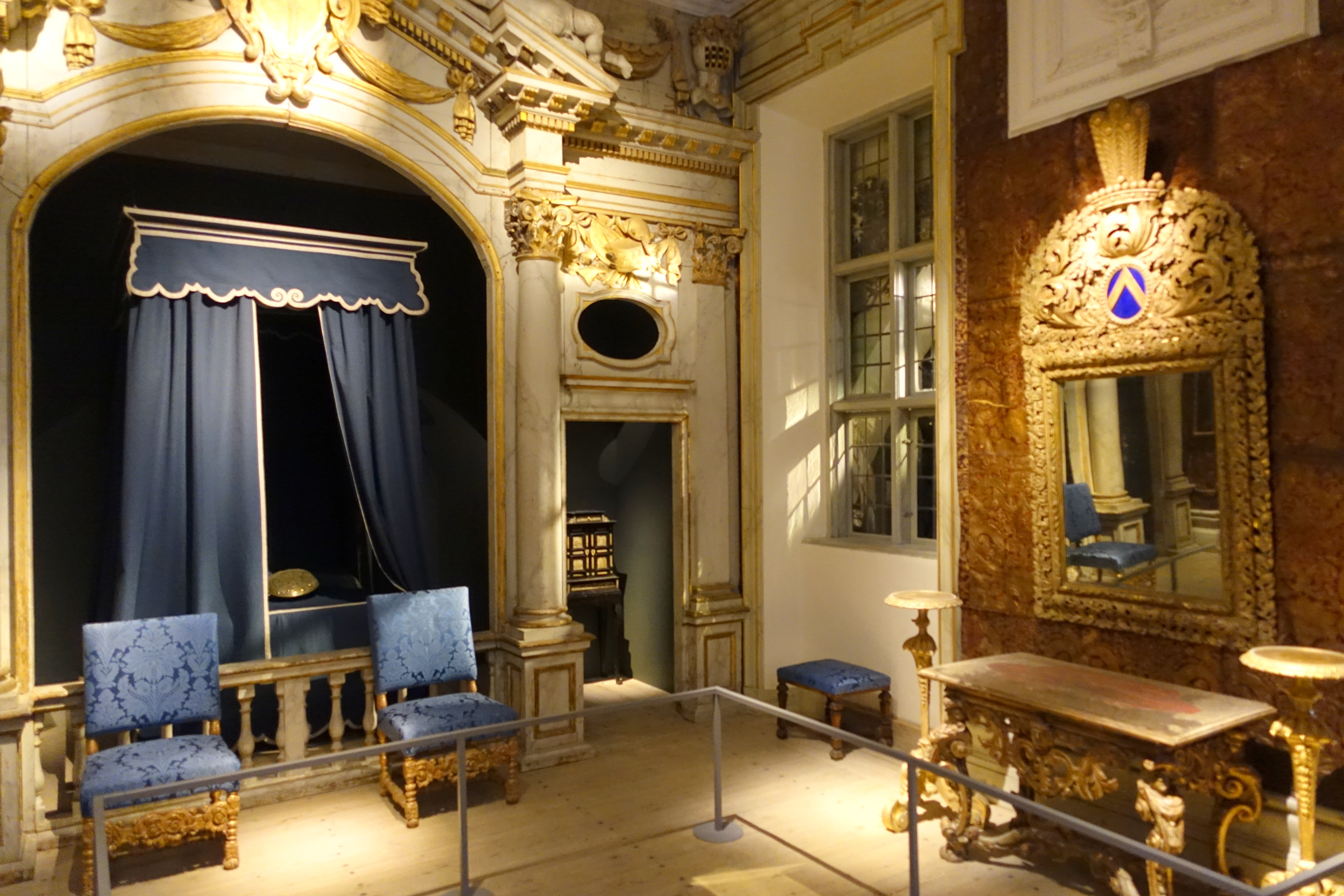 Exhibit in the Nordiska museet - Stockholm, Sweden. These works are in the public domain because their creators died more than 70 years ago.